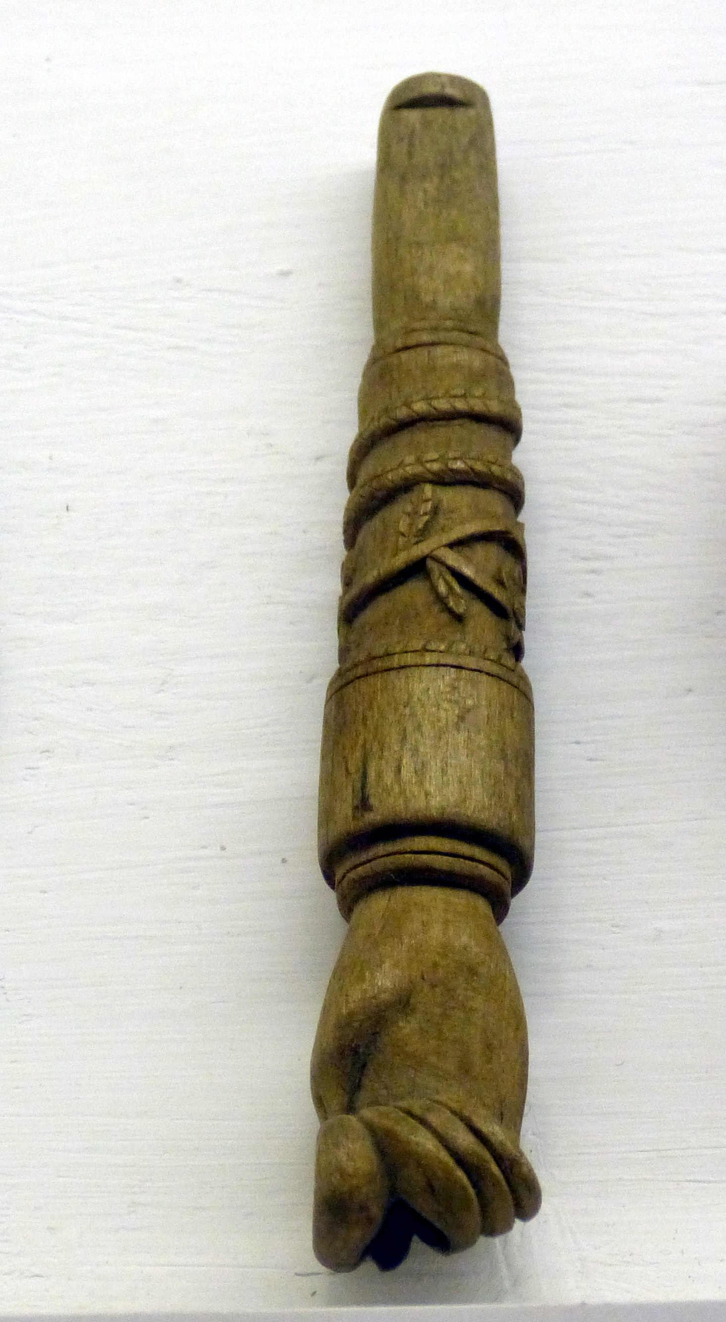 Freistadt ( Upper Austria ). Mühlviertler Schlossmuseum: Fig sign.